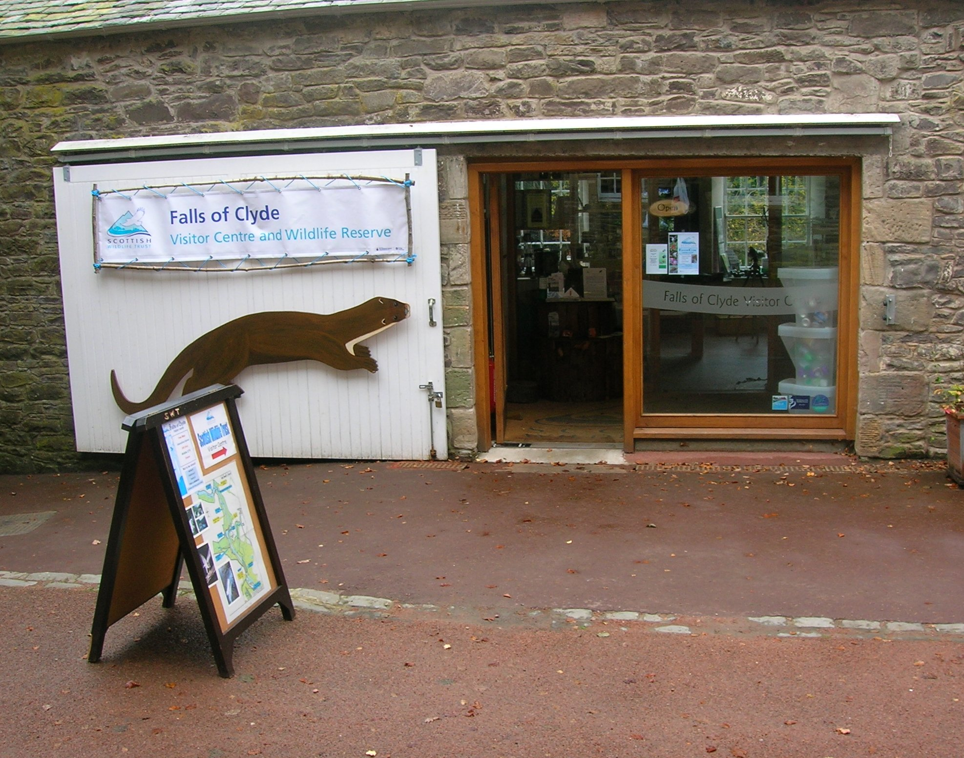 The Scottish wildlife Trust visitor centre at New Lanark, Lanarkshire, Scotland.